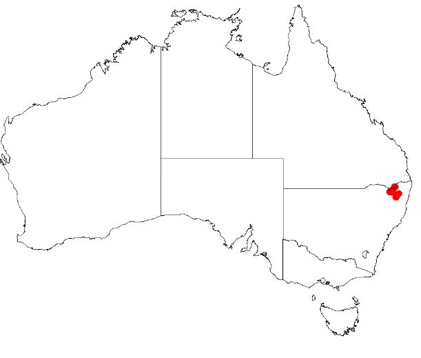 Hakea macrorrhyncha Occurrence data downloaded from AVH on 22 November 2018 using